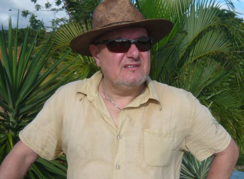 Jerzy Biedrzycki